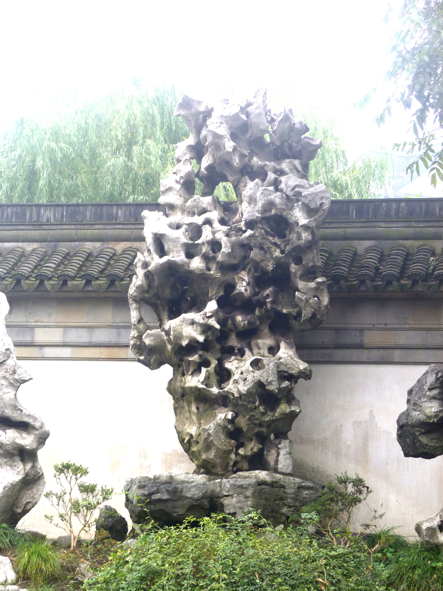 Exquisite Jade Rock at Yu Garden in Shanghai